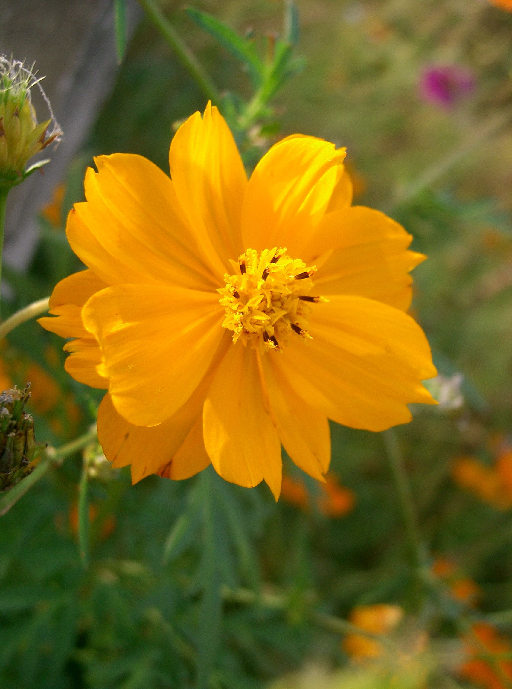 Cosmos sulphureus in Osaka-fu Japan